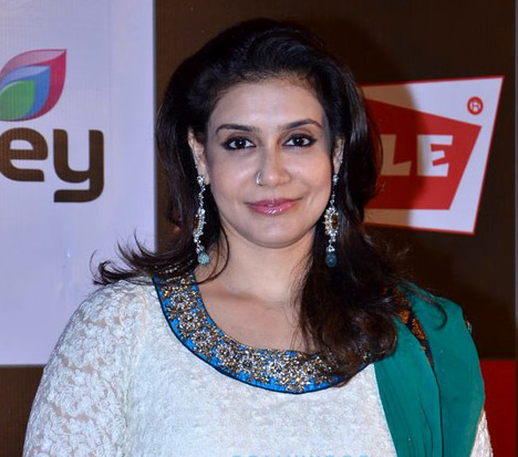 Actress Lissy at the launch of Celebrity Cricket League Season 4